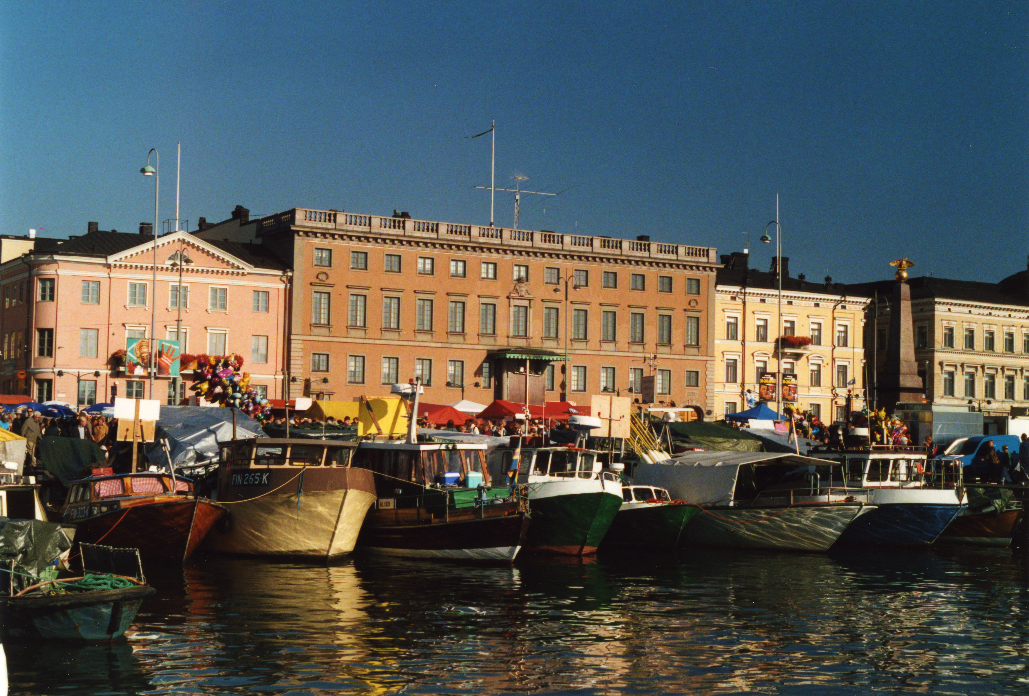 Baltic Herring Market in Helsinki, Finland in October 2001